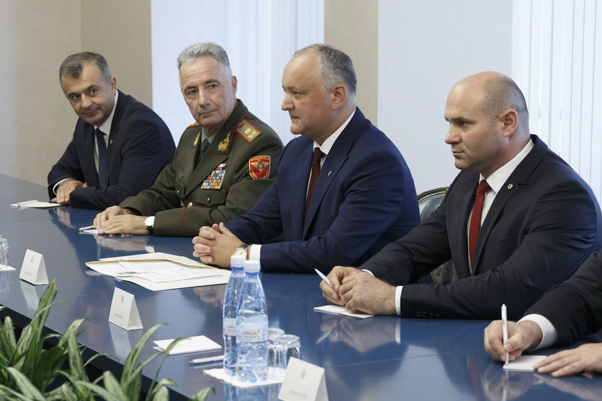 Глава российского военного ведомства передал президенту Молдавии рассекреченные документы, связанные с освобождением Молдавии от фашизма